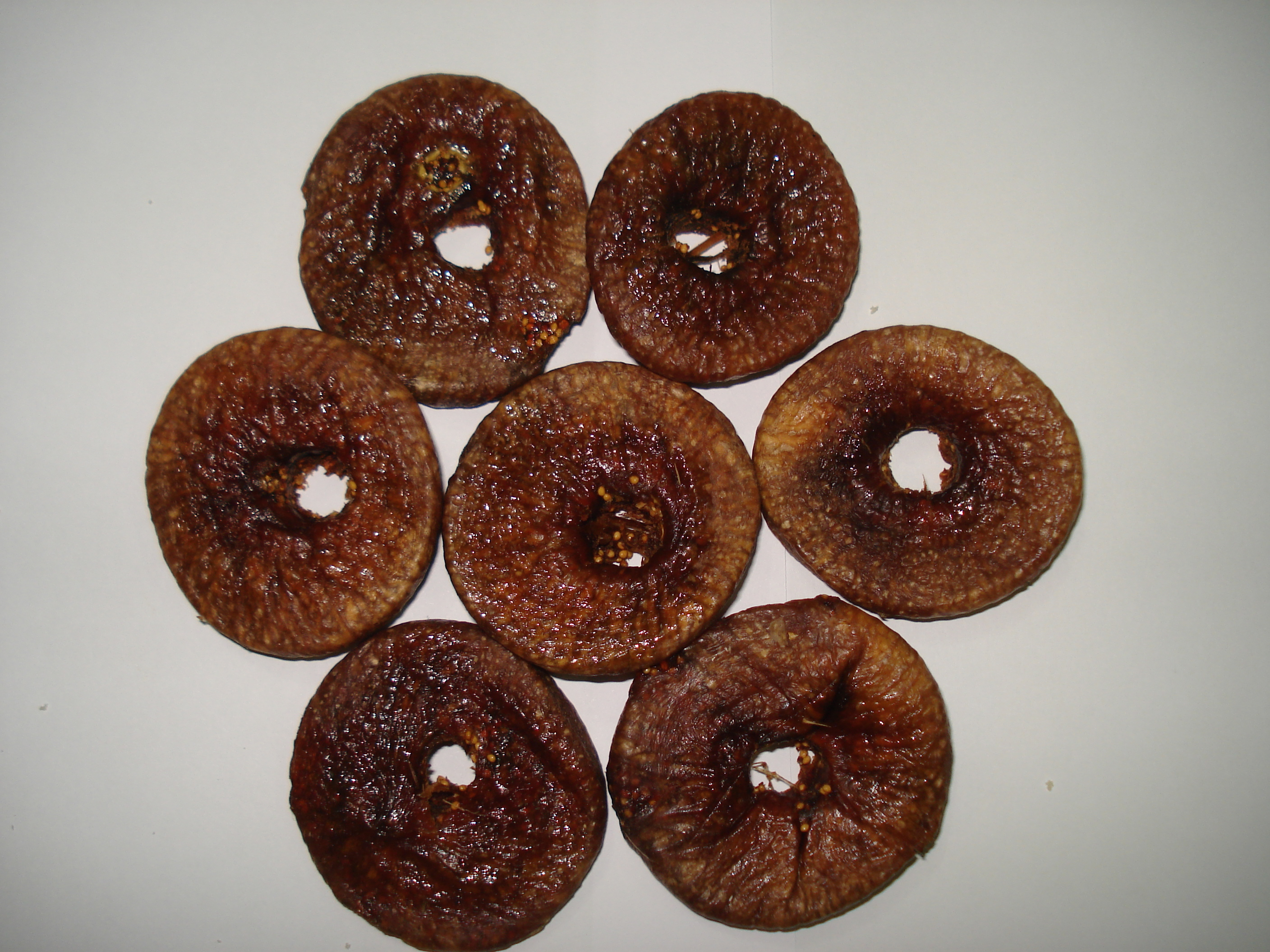 Fig, injeer in urdu, teen in arabic